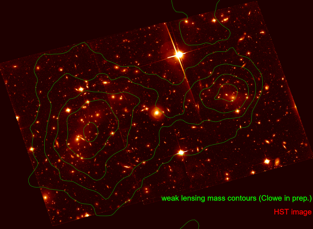 Superimposed mass density contours, caused by gravitational lensing of dark matter. Photograph taken with Hubble Space Telescope.